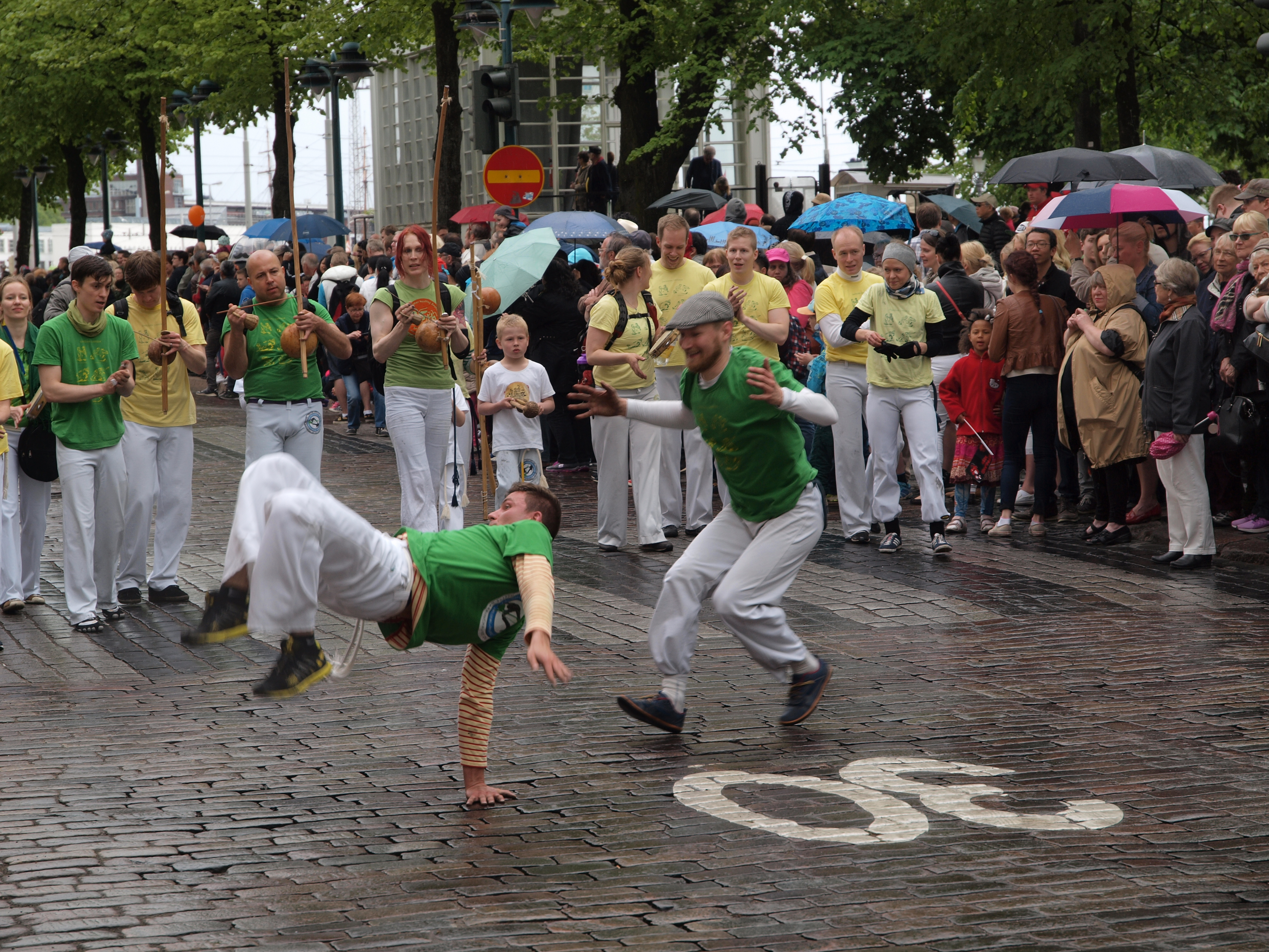 A demonstration of capoeira as a brief intermission between the main performances by the Finnish samba schools at the Helsinki Samba Carnaval 2015 in central Helsinki, Uusimaa, Finland.